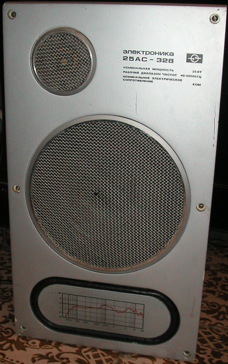 Passive radiator loudspeaker enclosure. Leningrad plant "Ferropribor" - "Elektronika 25AC-328"